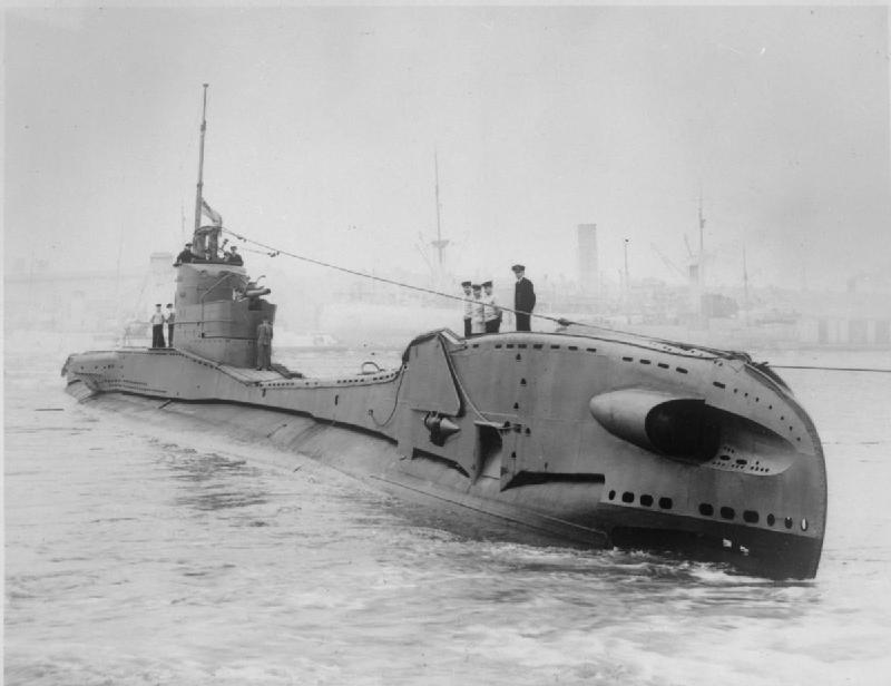 British T class submarine HMSM THORN underway on the River Mersey on completion.